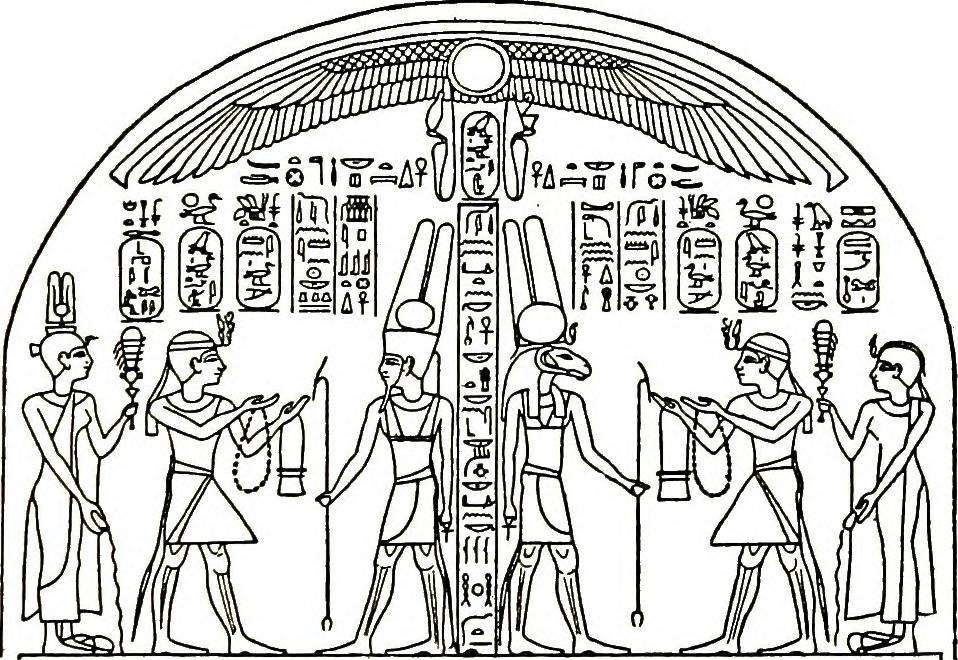 Upper register of a stele of the meroitic king Harsiotef (4th century BCE) here depicted while offering to two different forms of the god Amun-Ra. Harsiotef is accompanied by his royal wife Batahaliye (far left) and his royal mother Atasamalo (far right).